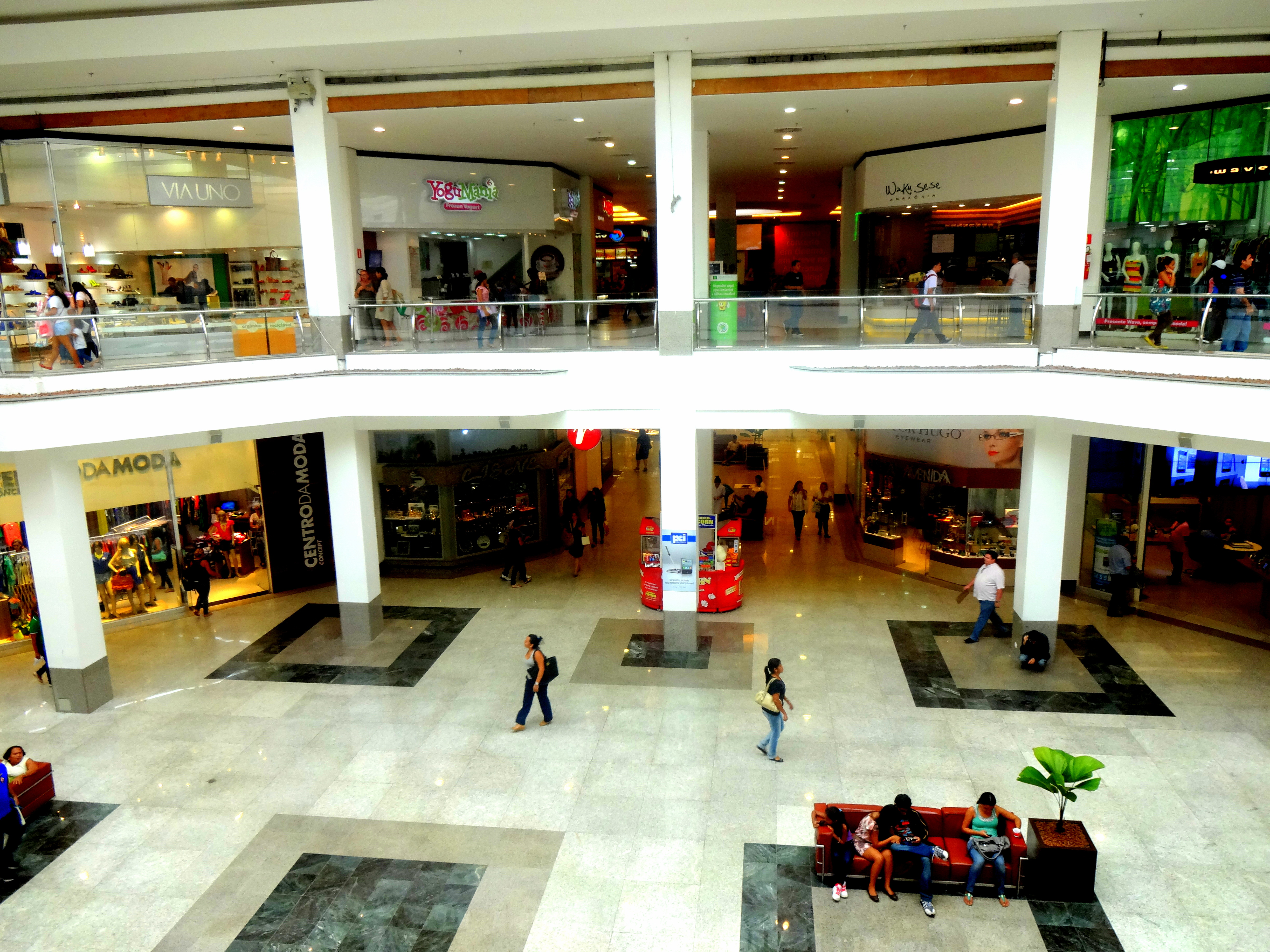 foto do shopping amazonas em 2013